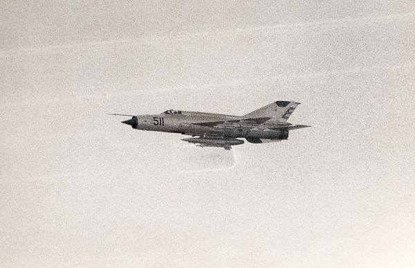 Local call number: cm0181 Personal Author: McDonald, Cory, 1946- Title: [Cuban MIG over Florida Straits] Physical descrip: 1 photoprint: b&w; 8 x 10 in. Date/place captured: ca. 1970 Series Title: (Cory McDonald Collection) Repository: State Library and Archives of Florida, 500 S. Bronough St., Tallahassee, FL 32399-0250 USA. Contact: 850.245.6700. Persistent URL